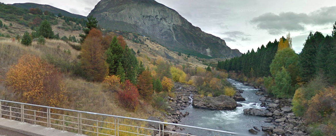 Plant colours/foliage of autumn located by a stream, just southwest off the town of Coyhaique.